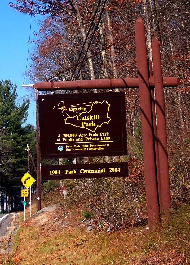 Photographed by Daniel Case on 2005-11-12 on Route 55 near Napanoch